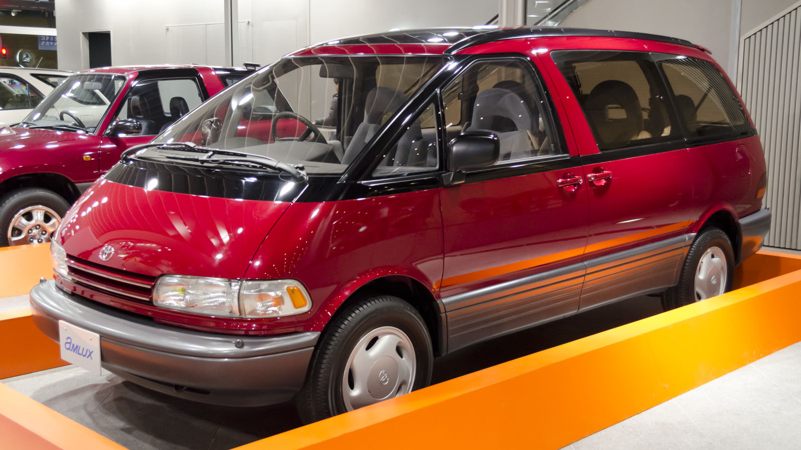 1st generation Toyota Estima